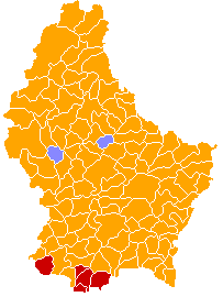 A map of the communes of Luxembourg (prior to the mergers of 1 January 2006) coloured by the plurality party in the 2004 election to the Chamber of Deputies. Orange represents the Christian Social People's Party, red represents the Luxembourg Socialist Workers' Party, and light blue represents the Democratic Party.